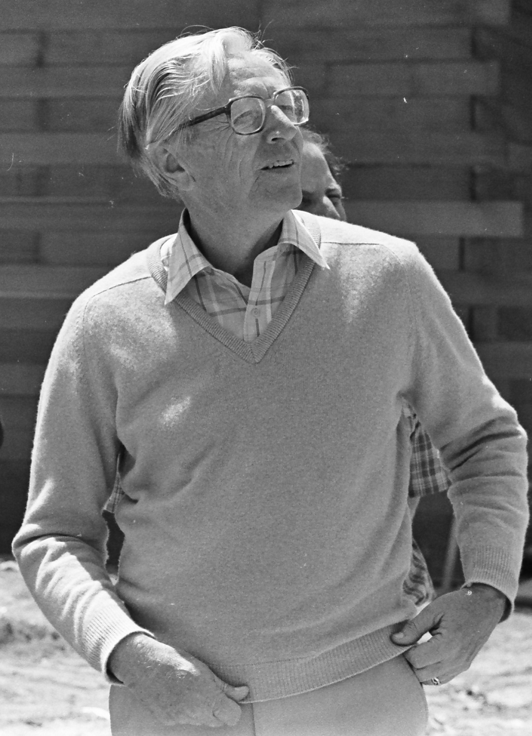 "Peanuts" cartoonist Charles M. Schulz (right) reviews visits the construction site of "Camp Snoopy" at Knott's Berry Farm with Virginia and Marion Knott (daughters of Farm founders Walter and Cordelia Knott), circa 1983. There are no known copyright restrictions on this image. All future uses of this photo should include the courtesy line, "Photo courtesy Orange County Archives." Comments are welcome after reading our Comment Policy . From the Knott's Berry Farm Collection.